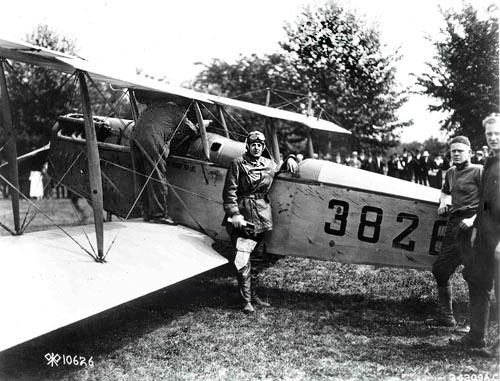 First airmail service, 1918 Army Major Reuben H. Fleet stands in front of a Curtiss JN-4H "Jenny" airplane after flying from Philadelphia to Potomac Park in Washington, D.C., on May 15, 1918, the date regularly scheduled airmail service began between Washington and New York City. Fleet brought the plane to Washington in preparation for the first flight. In the photograph you can see Fleet’s map, still strapped to his leg. Working with rough fields, inexperienced pilots, and early planes, Fleet oversaw the Army's contribution to early airmail.